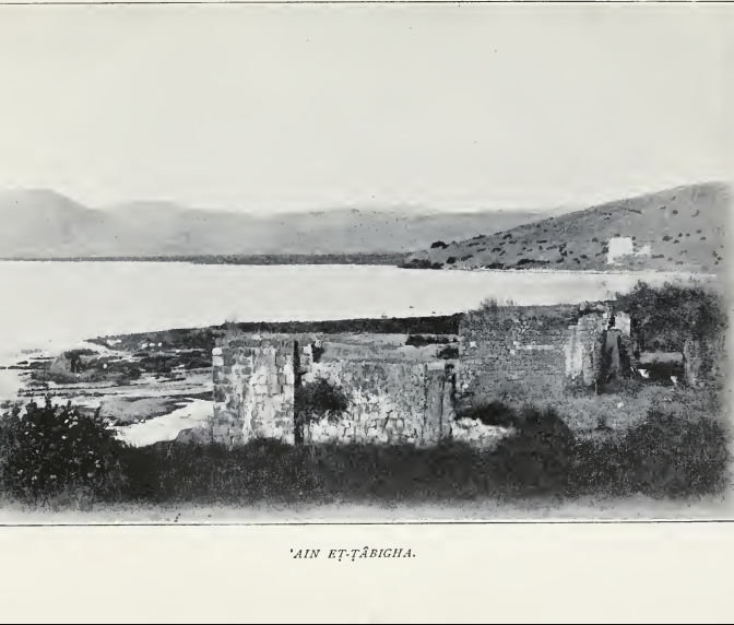 Tabgha Ein Sheva 1913